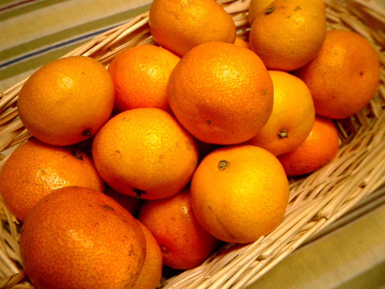 Citrus unshiu - Horizontal section photograph